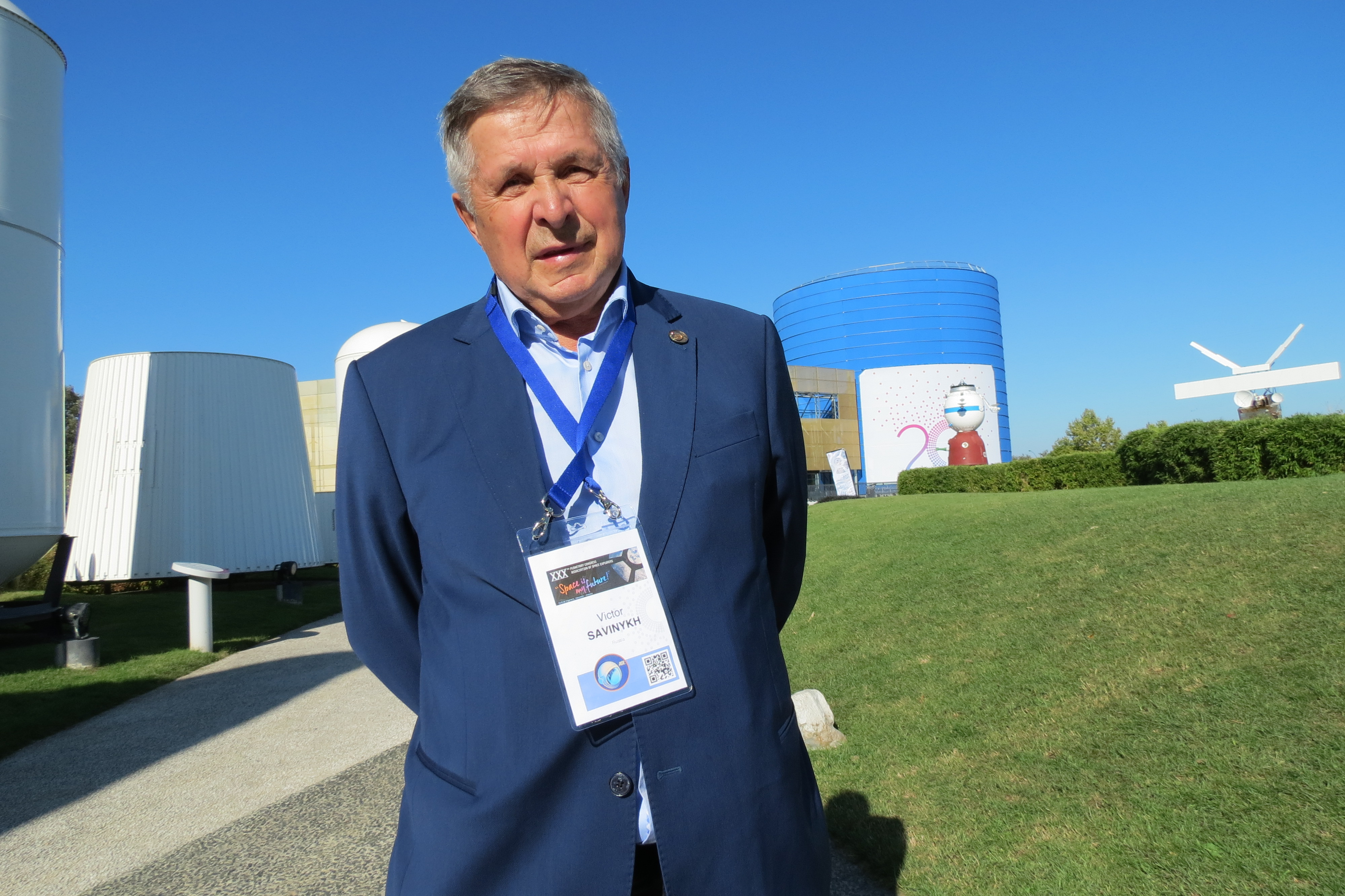 Russian Cosmonaut Victor Savinykh. Cité de l’espace,Toulouse, France